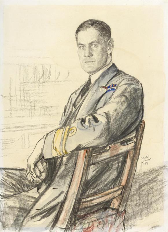 Rear-admiral Trevylyan Dacres Willes Napier Cb Mvo image: a three quarter length portrait of Rear Admiral Trevylyan Napier in Royal Navy uniform, sitting in a chair and turned to his left to look directly at the viewer.